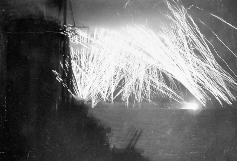 THE CAMPAIGN IN NORMANDY, JUNE 1944. Tracer fire from HM ships streaking the darkness as an almost impenetrable screen is put up against the enemy bombers during a night bombing attack at the anchorage at Ouistreham off Normandy. Photograph taken on board HMS Mauritius - 10 June 1944